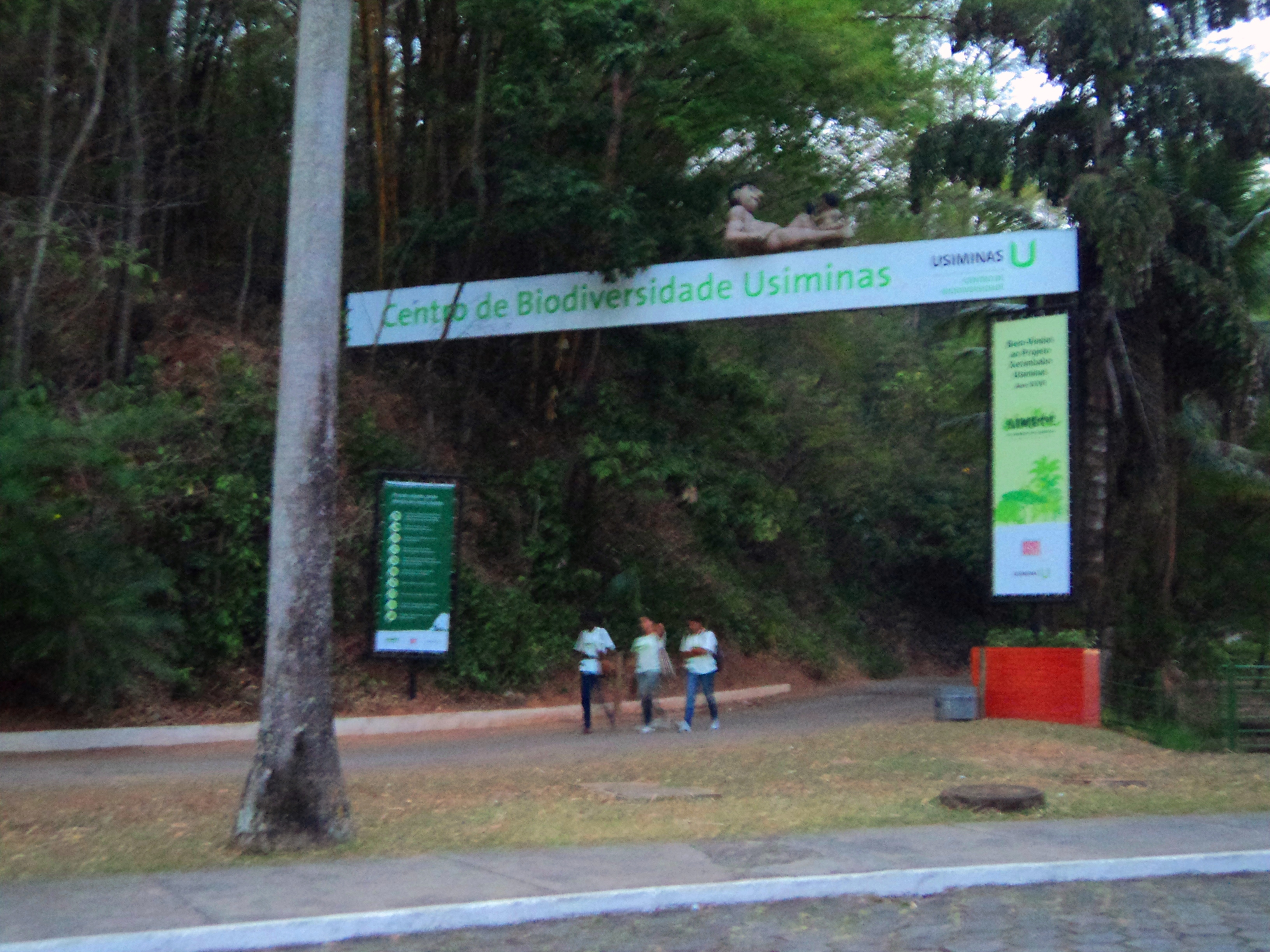 Doorway of the Usiminas Biodiversity Center, in Ipatinga, Minas Gerais, Brazil.